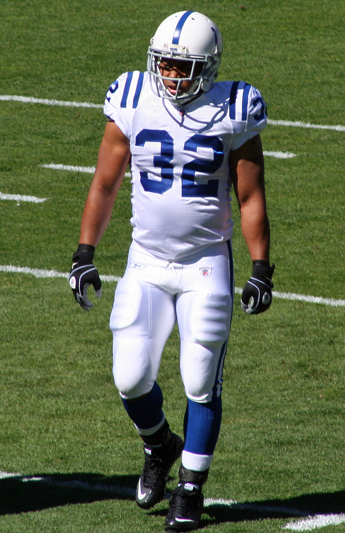 Mike Hart, a player on the Indianapolis Colts American football team.